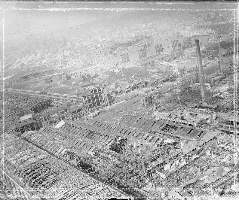 Royal Air Force Bomber Command, 1942-1945. Oblique aerial photograph of part of the devastated Krupps armaments works at Essen, Germany, on which the last Bomber Command raid had been mounted one month before.